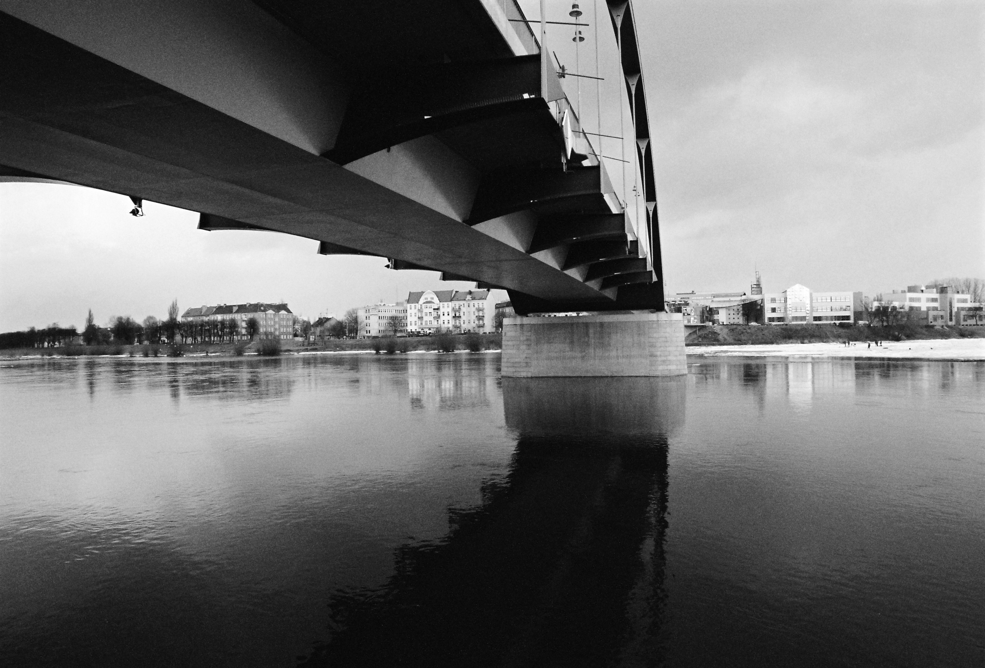 Frankfurt/Oder, Bridge over River Oder black/white Kodak T400CN analog Film